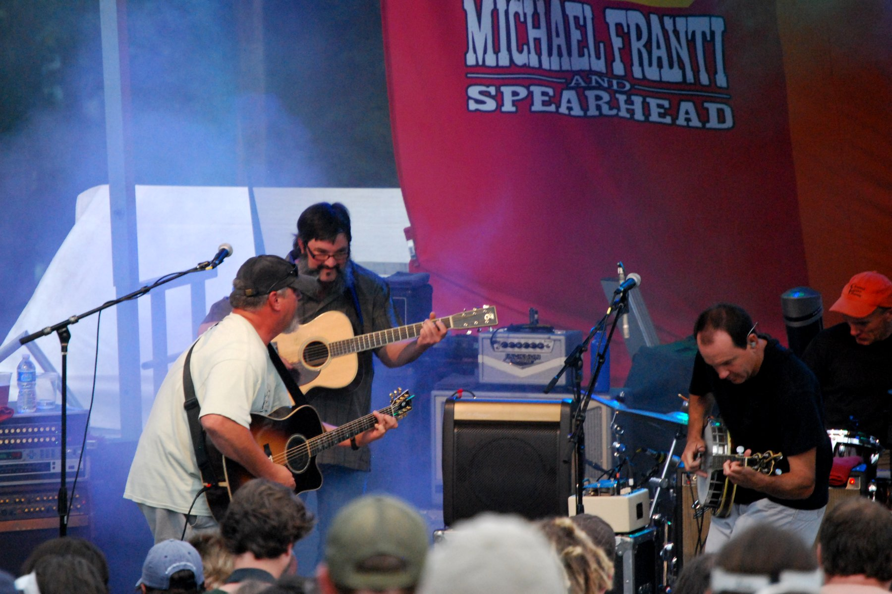 Acoustic Syndicate performs with Larry Keel at Smilefest, 2010 in Pinnacle, North Carolina.